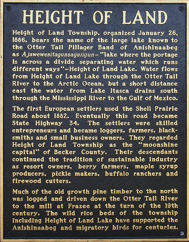 Height of Land historical marker off Minnesota State Highway 34, Height of Land Township, Minnesota, USA.